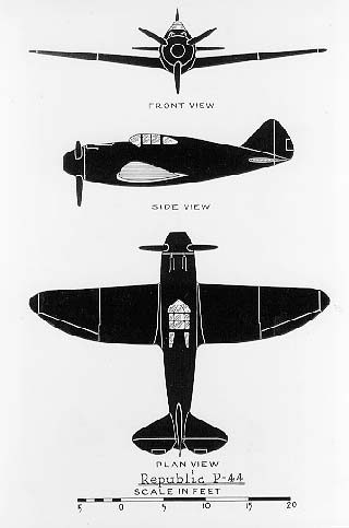 an early sketch of the P-44 (artist unknown)